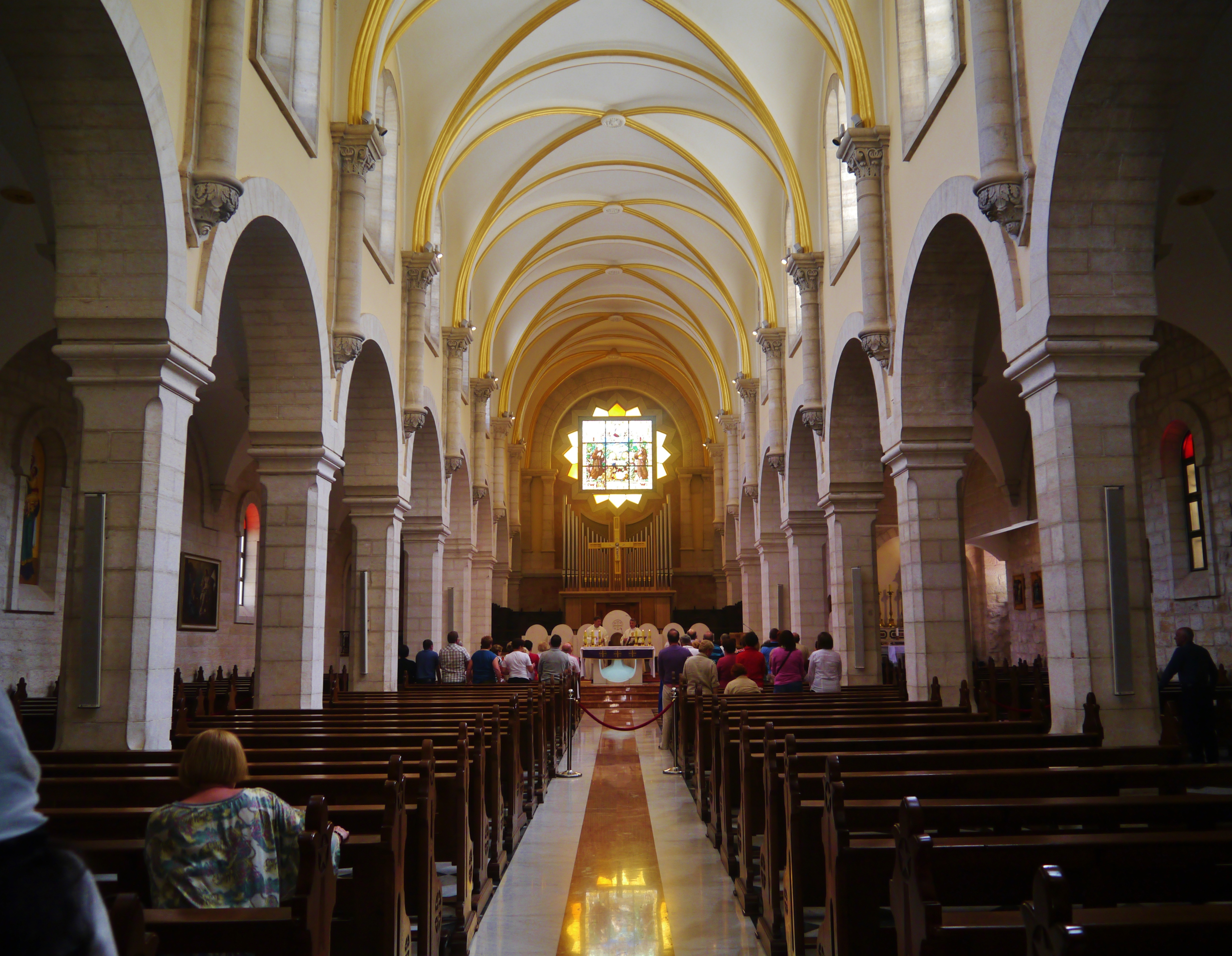 Nave of St. Catherine, Bethlehem, Palestine